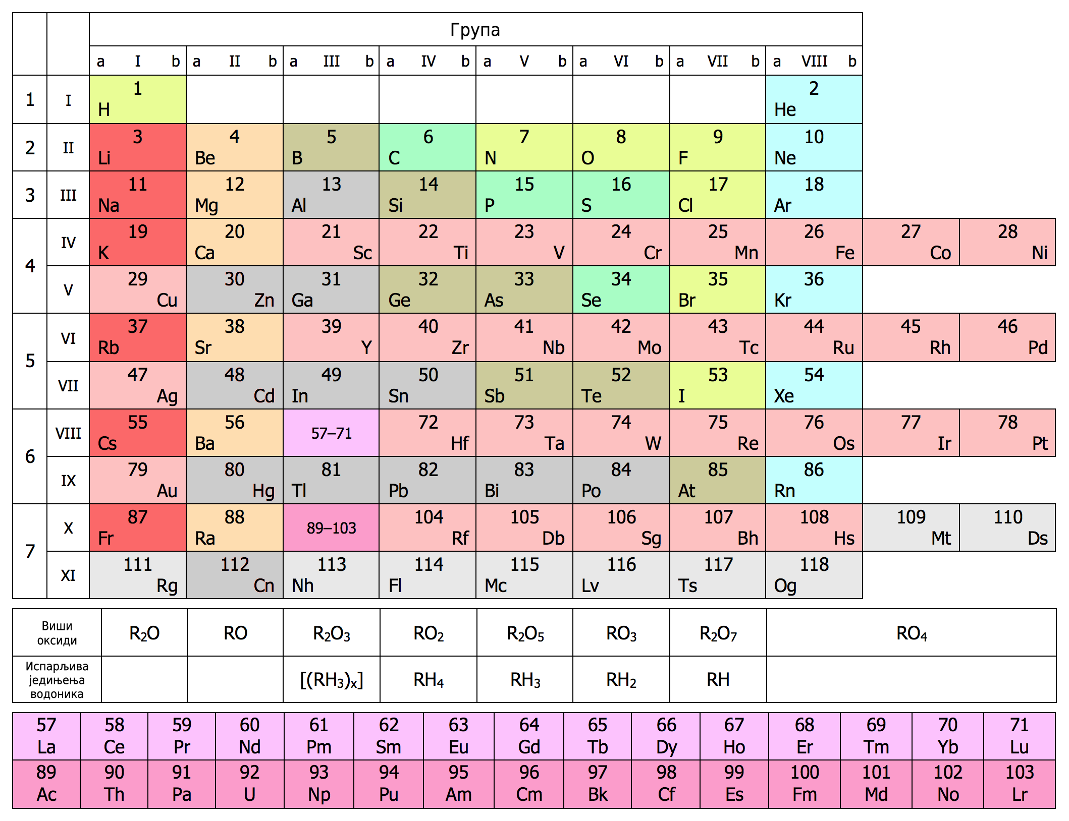 Short form periodic table, with oxide and hydride formulae [in Serbian]